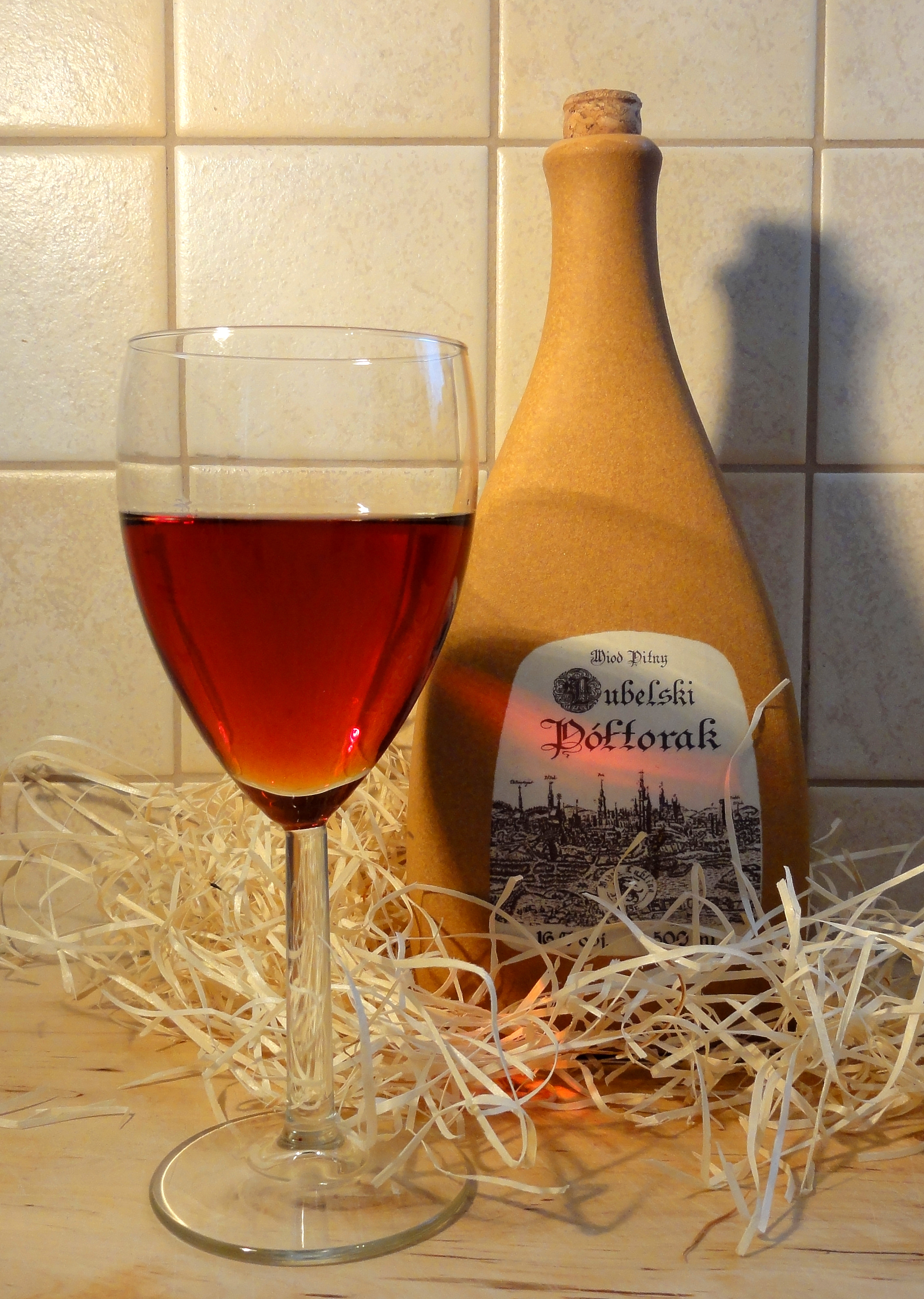 Lubelski Półtorak, very sweet Polish mead